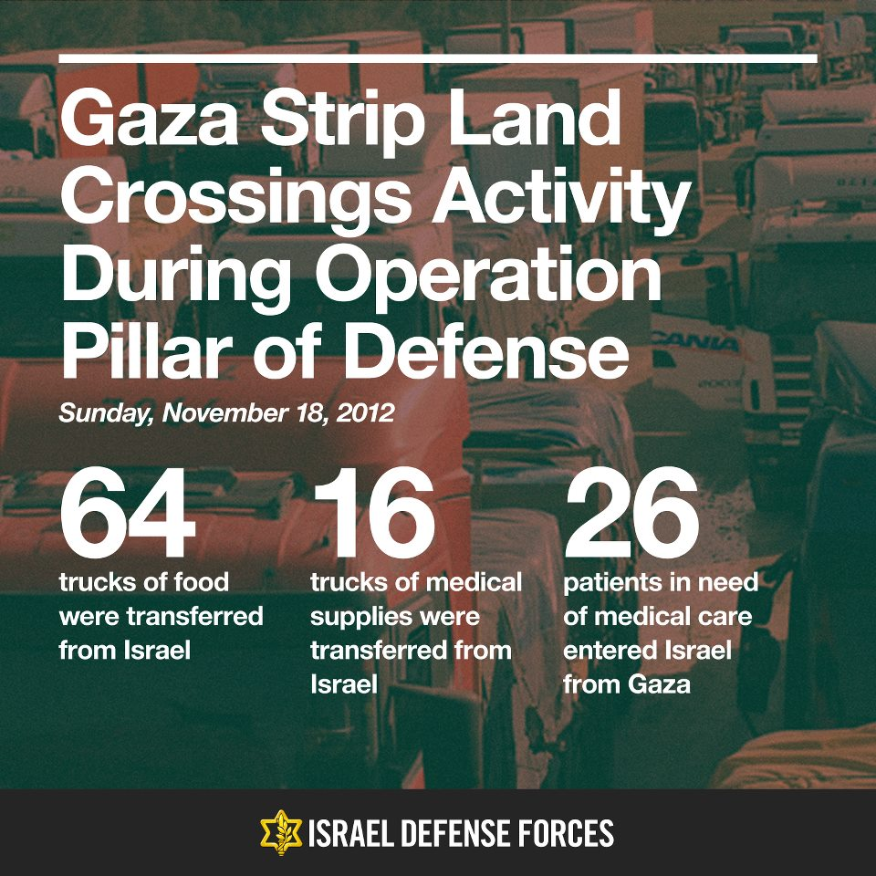 In response to the incessant rocket attacks from the Gaza Strip – more than 700 have struck Israel since the beginning of the year, and more than 120 since Saturday – the IDF has launched a widespread campaign against terror targets in Gaza. The operation, called Pillar of Defense, has two main goals: to protect Israeli civilians and to cripple the terrorist infrastructure in Gaza.